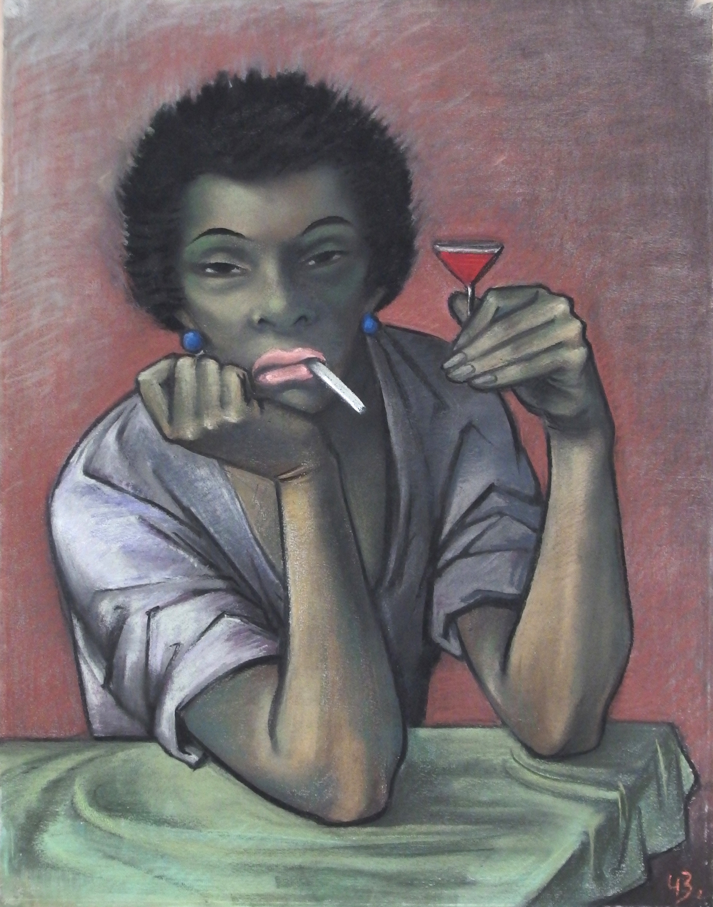 Ursula Benser, Woman with liqueur, 1943